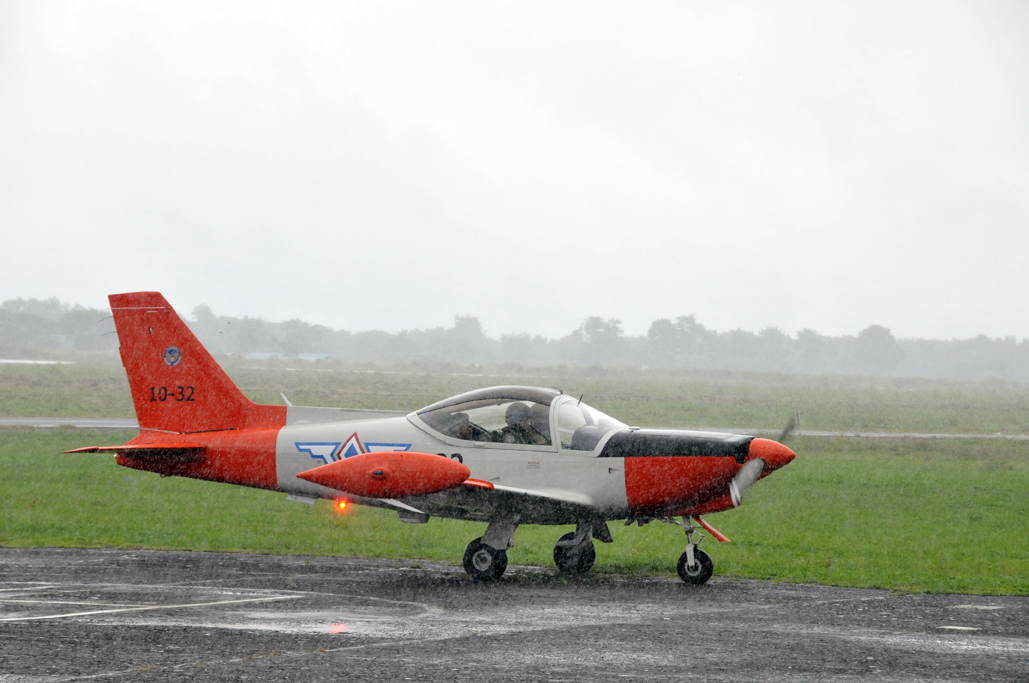 A Philippine Air Force Aermacchi SF-260 (t/n 10-32) primary trainer aircraft.